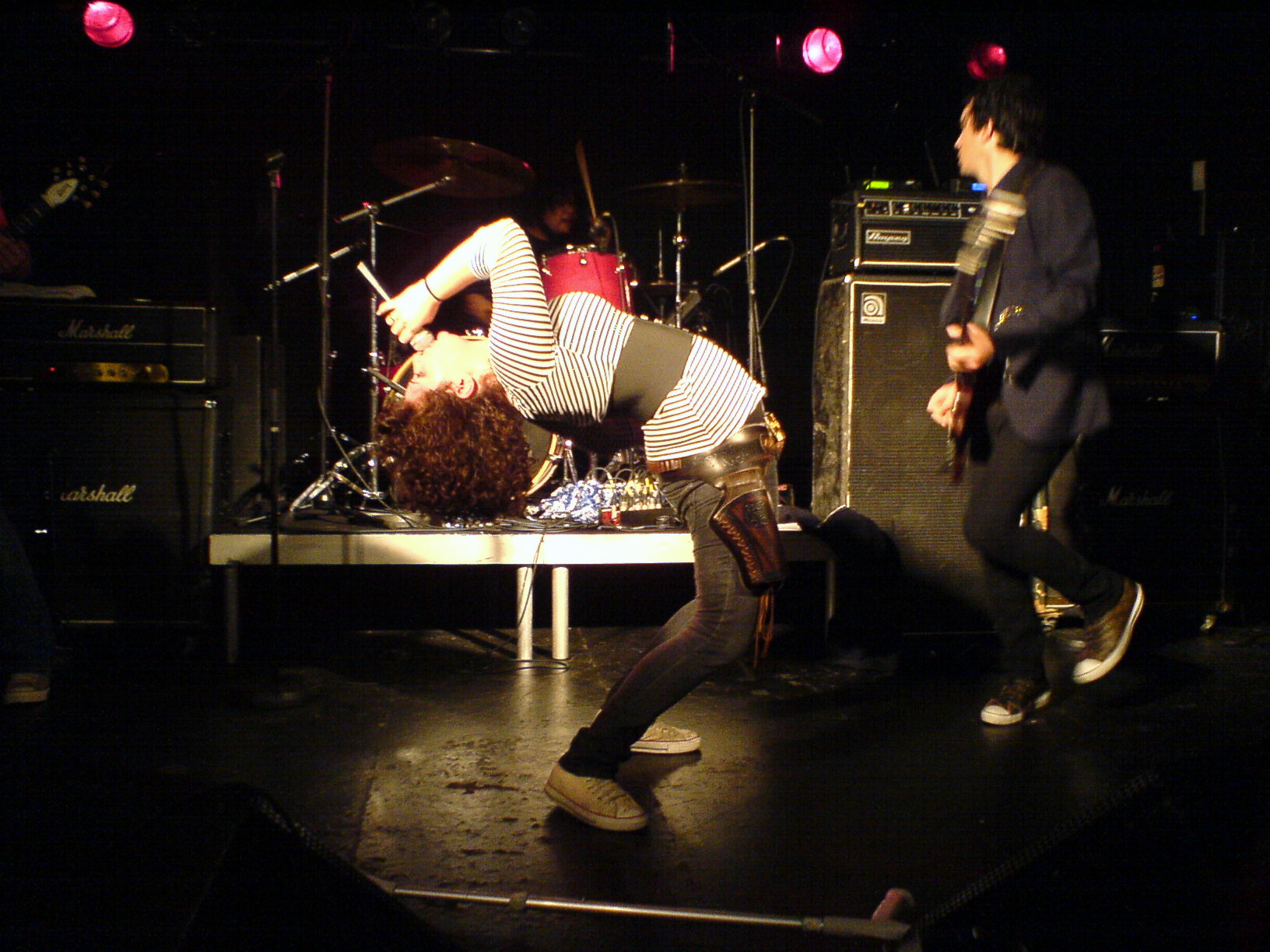 Morningwood live in Lille Vega (Copenhagen) May 22, 2006 Source: Stig Nygaard